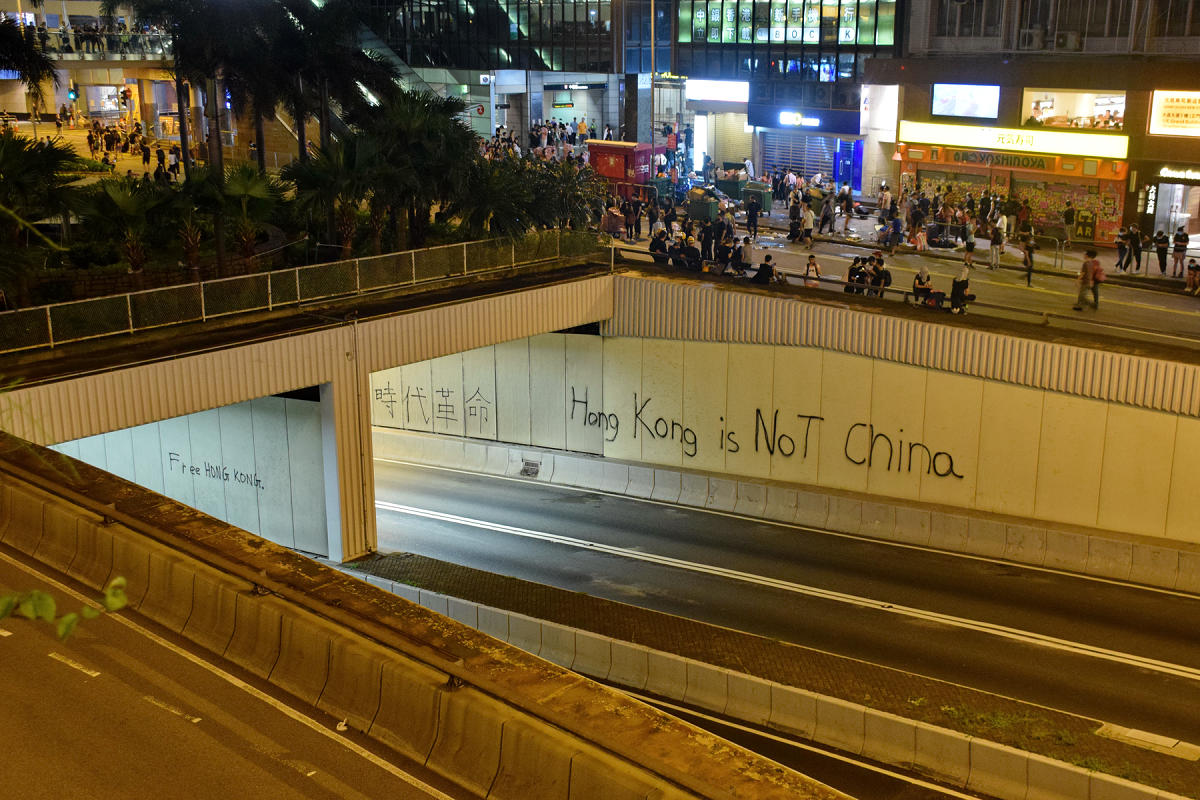 Wall panels of Pedder Street Underpass at Connaught Road Central had been sprayed "時代革命" / "Hong Kong is NoT China" / "Free HONG KONG".